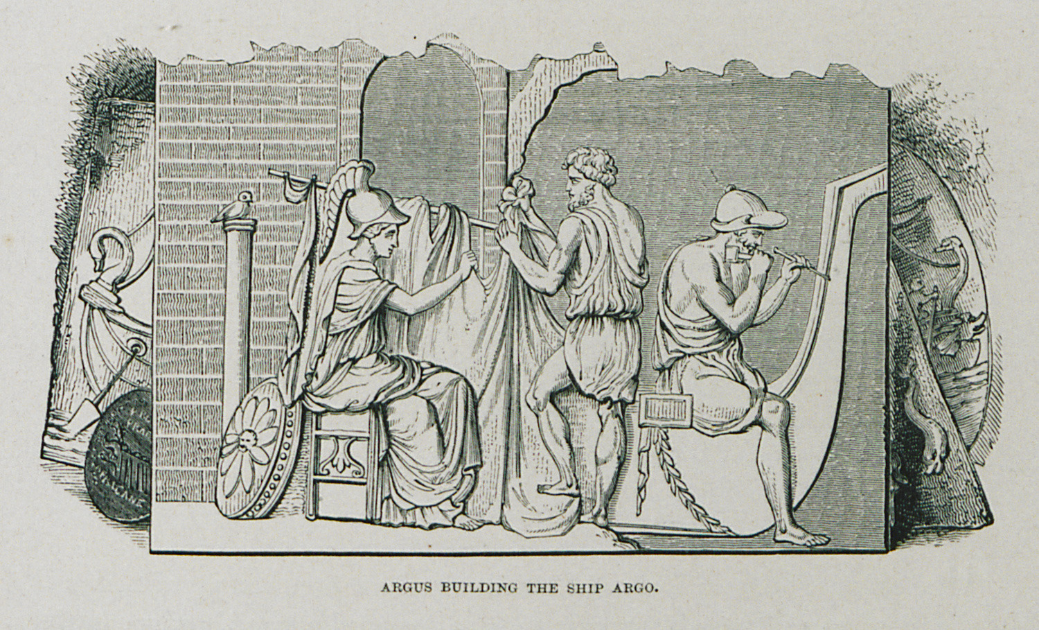 Christopher Wordsworth. Greece Pictorial, Descriptive, & Historical, and a History of the Characteristics of Greek Art, London, John Murray, 1882.